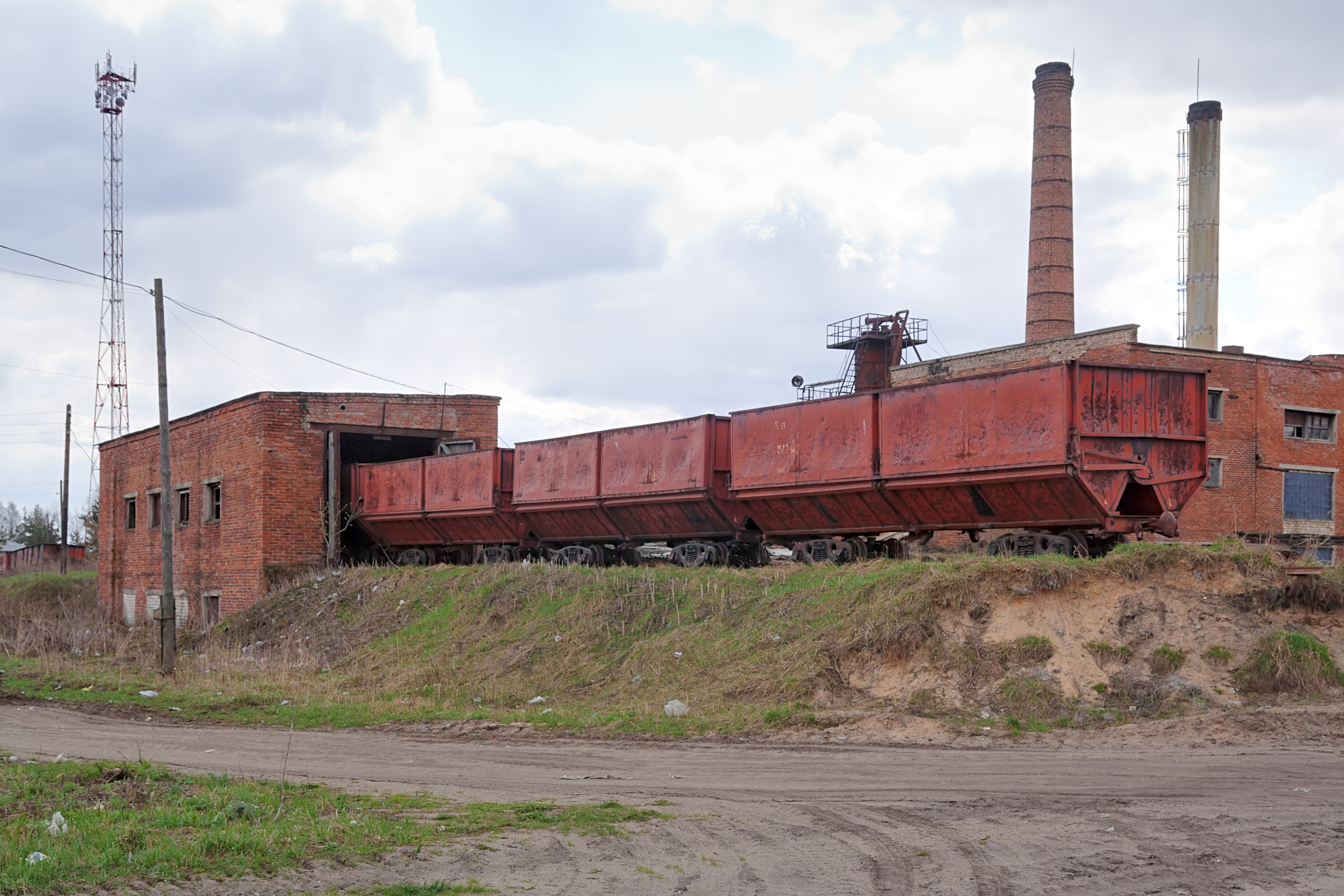 Narrow gauge gondolas TSV-6A at the unloading ramp. On the left a brick barn for unloading of peat. On the right boiler with two pipes. Village Kupanskoe, Pereslavl region. The systematic sale of Pereslavl Railway is in full swing. Soon it will be fully destroyed.